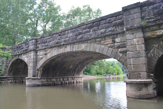 Antitam Creek Aqueduct (C and O Canal)